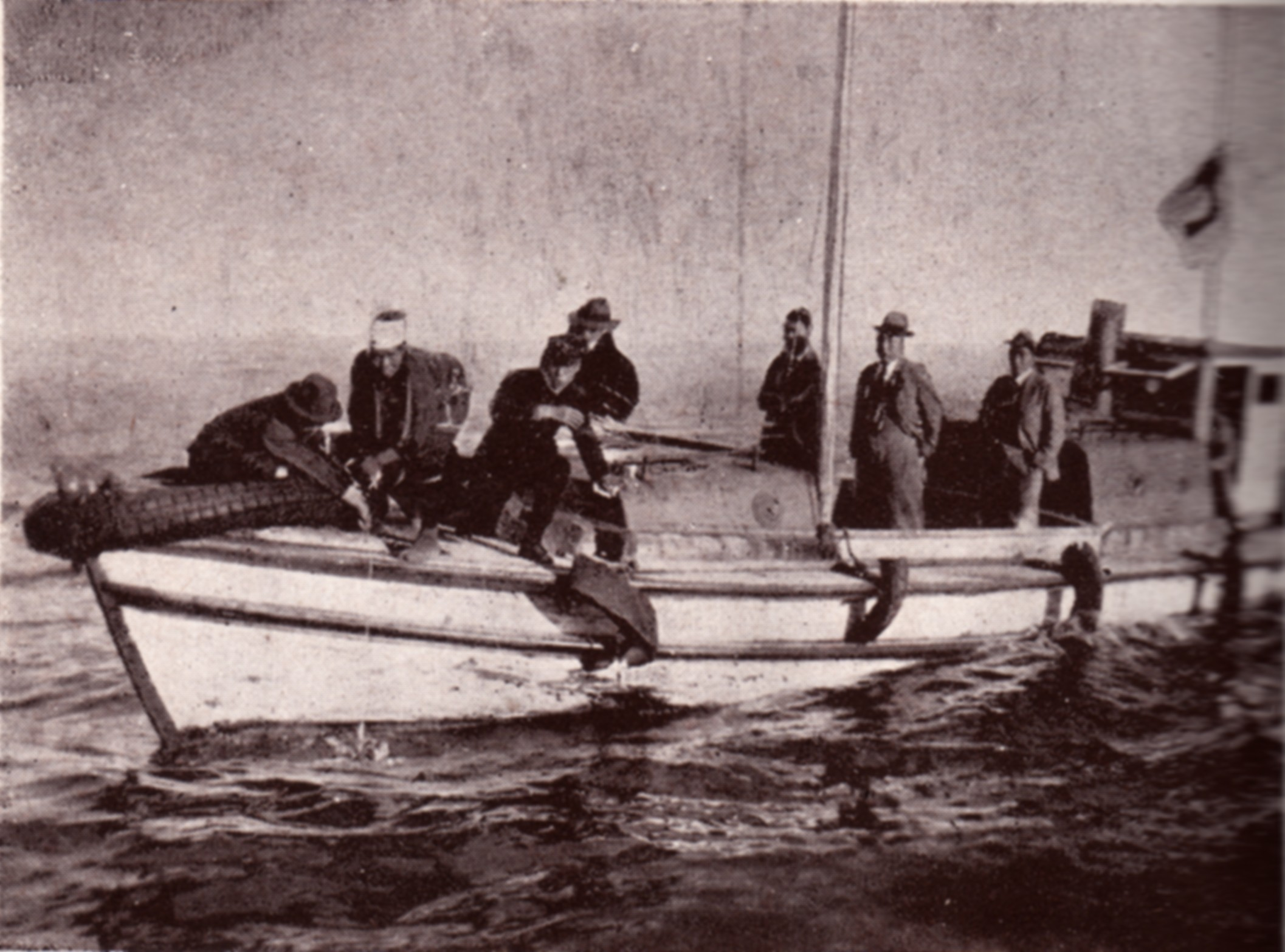 Explosion on sea for Seismic exploration at Kammon straight